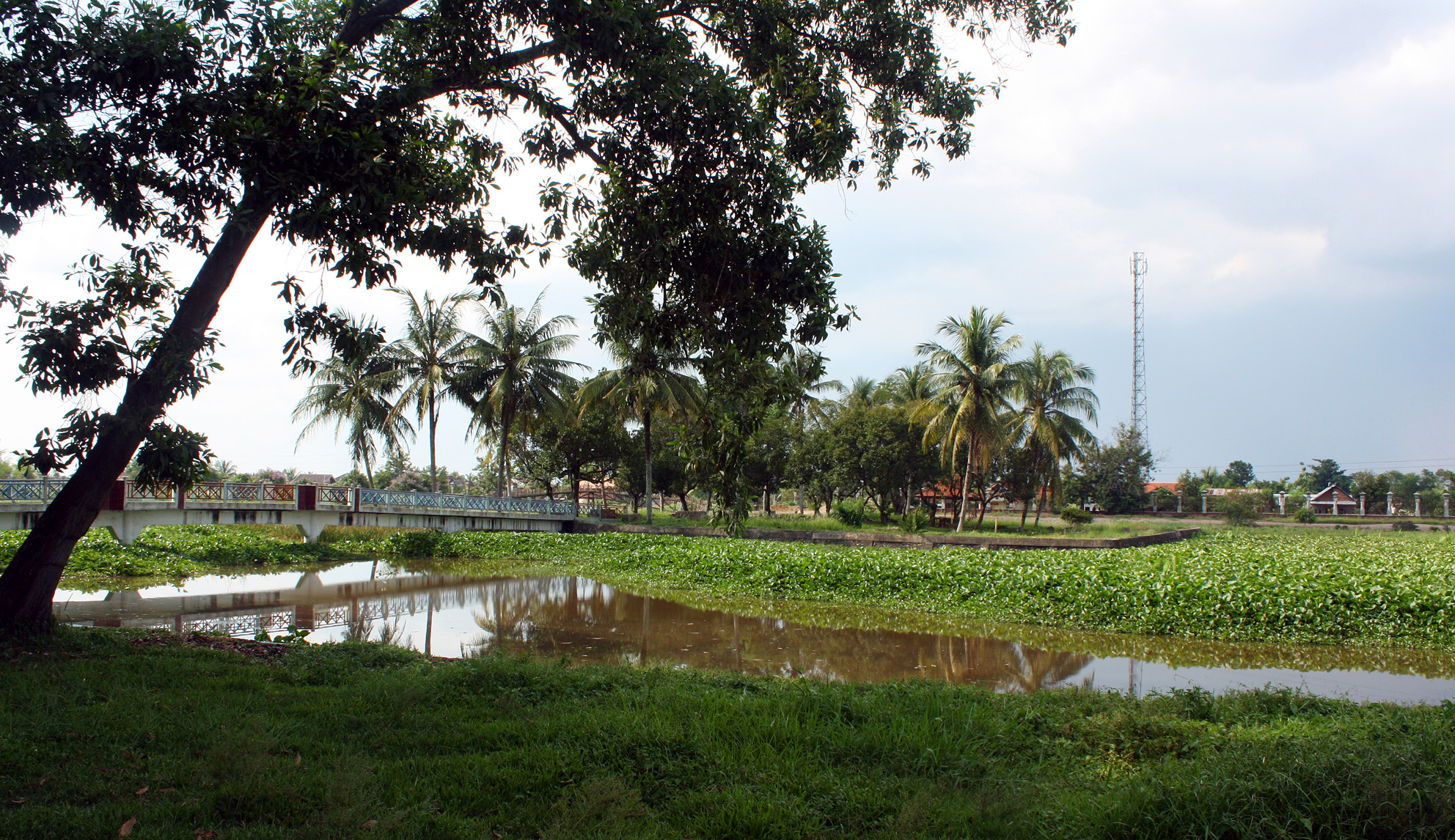 Pulau Cempaka, an artificial island measured 40 x 40 metres in the center of a square pond. Srivijaya Archaeological Park, Palembang, South Sumatra, Indonesia.